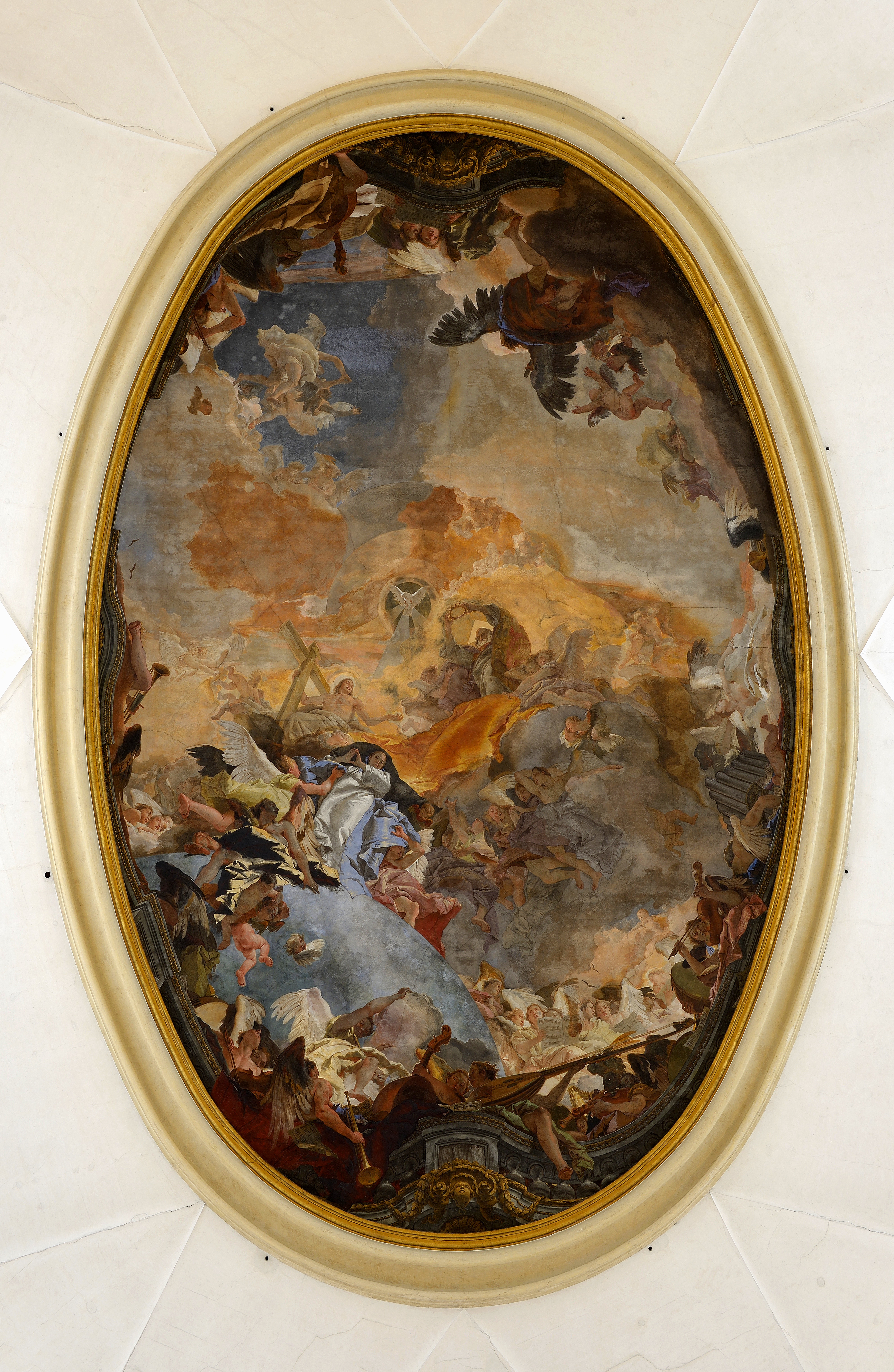 Coronation of Mary, in the Santa Maria della Visitazione church in Venice, ceiling.